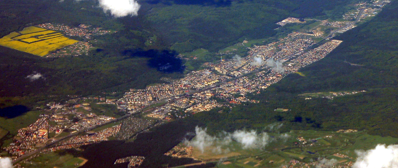 Wejherowo, Poland. Aerial view.